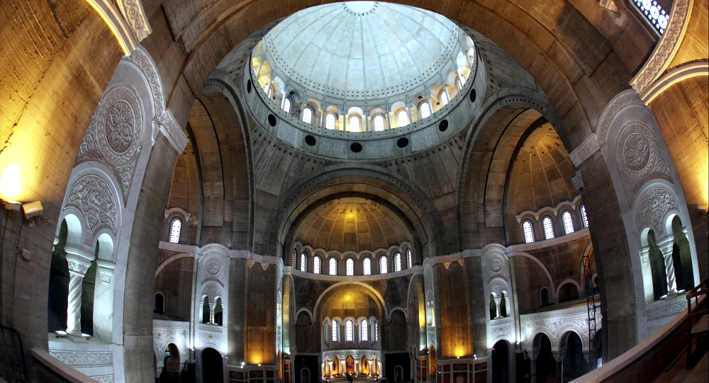 Spomen Hram Svetog Save unutrasnost